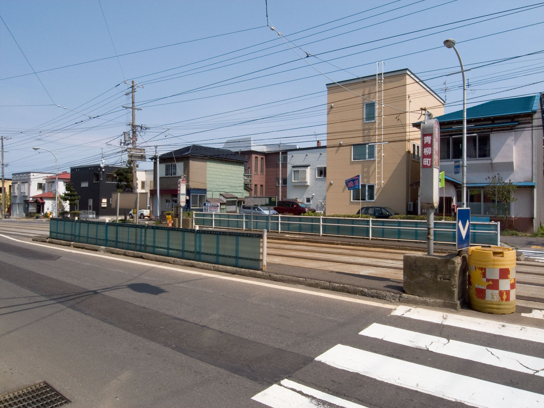 Aoyagicho station in Hakodate tram, Hokkaido, Japan